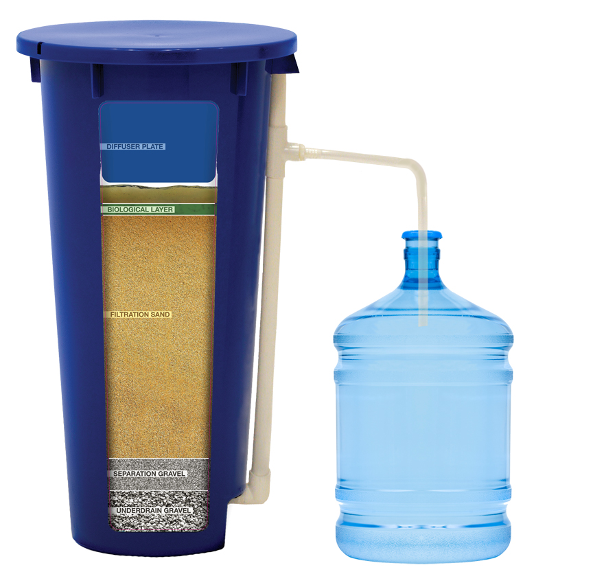 BioSand filtration uses a combination of biological and mechanical processes to dramatically reduce the leading causes of disease and death in the developing world including diarrhea, skin and urinary tract infections.